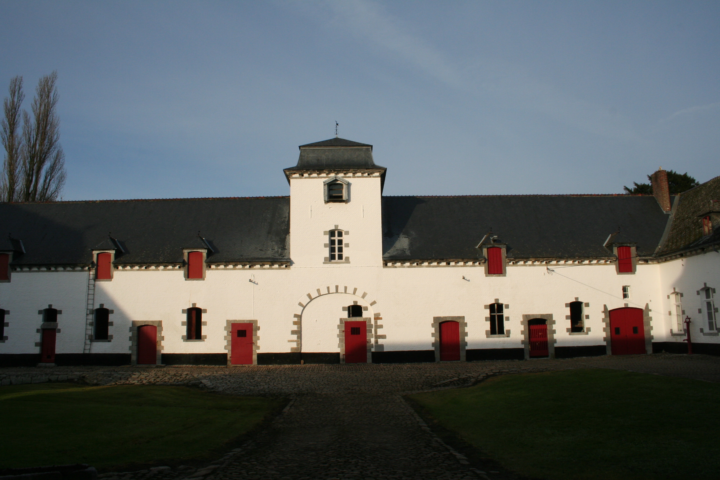 Vellereille-les-Brayeux (Belgium), old farmyard of the Bonne Espéance abbey (XVIIth centuries).